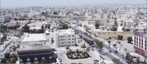 View over Irbid